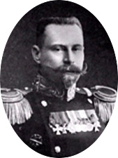 Russian Vice Admiral Nikolai Kolomeitsev, polar explorer and war hero